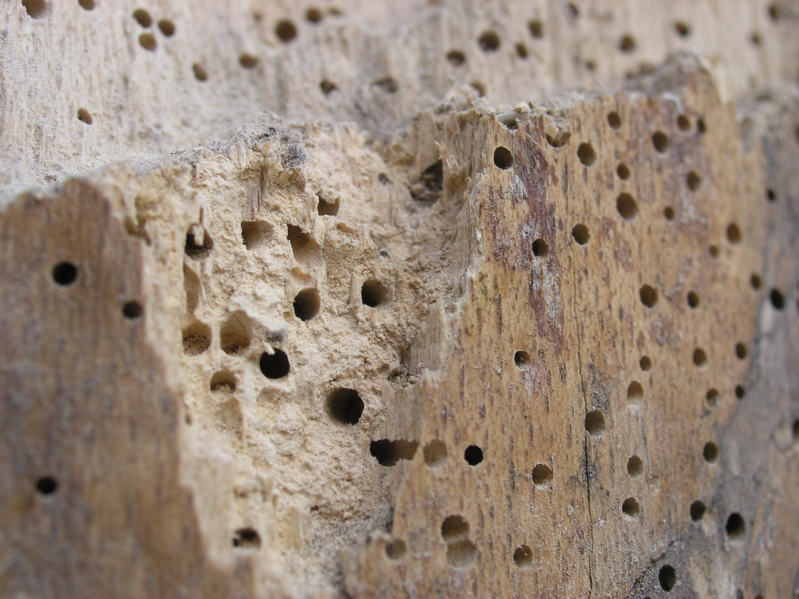 Close up of a piece of beech wood, infected by the common woodworm (anobium punctuatum). Diameter of the holes is about 1 mm to 1.5 mm. Place: Hannover, Germany Date: 14.4.2006 Photgrapher: Kai-Martin Knaak